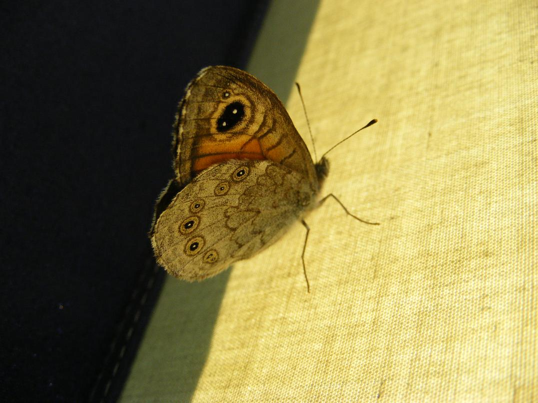 This photo shows Lasiommata maera